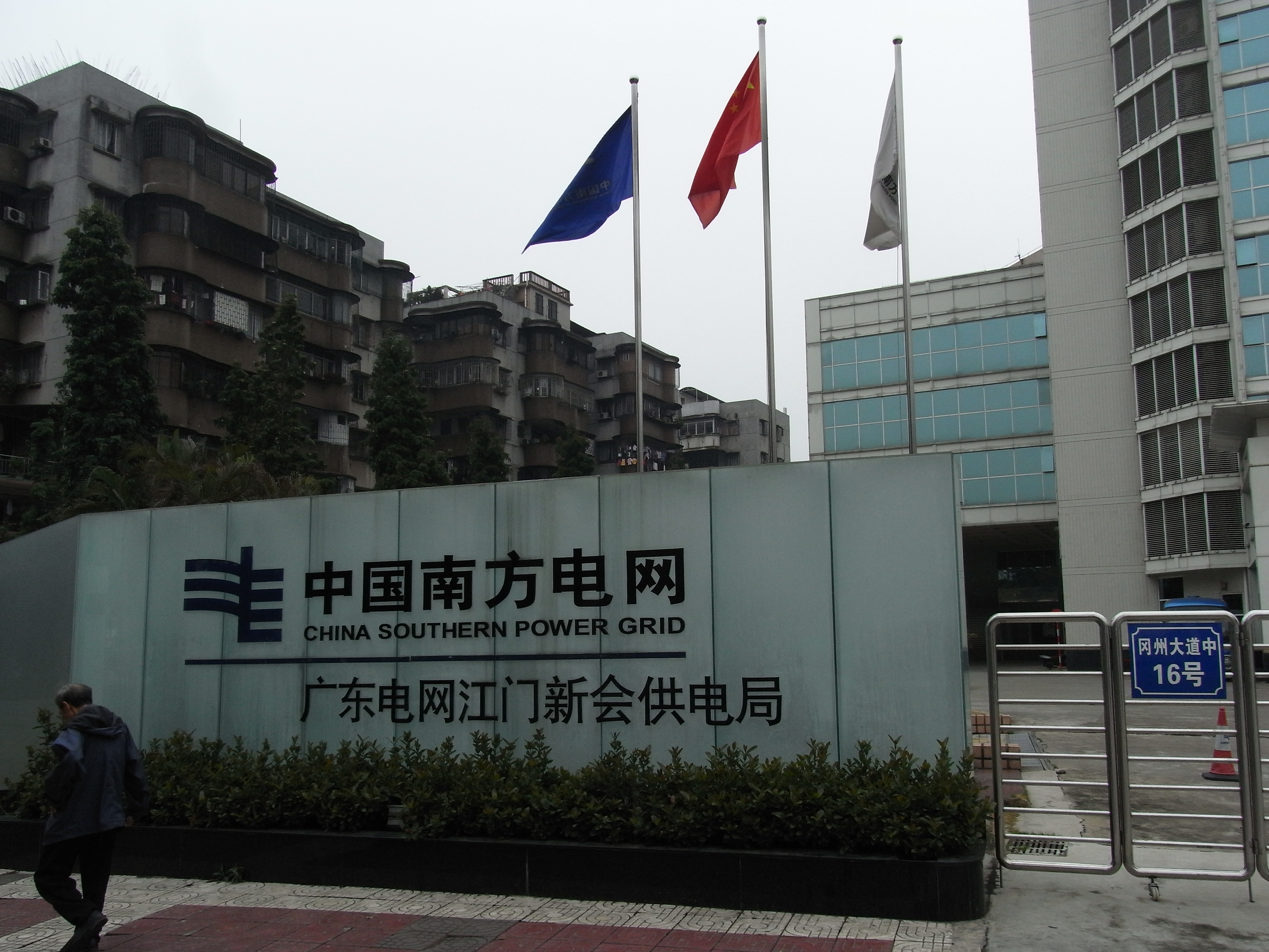 新會 Gangzhou Dadaozhong 16 岡州大道中 中國南方電網 China Southern Power Grid